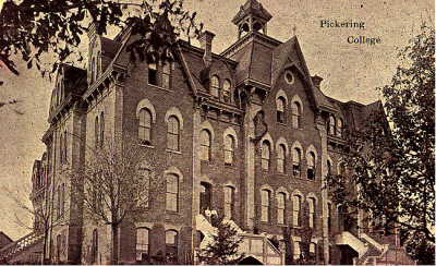 Courtesy of Pickering Public Library digital archive.